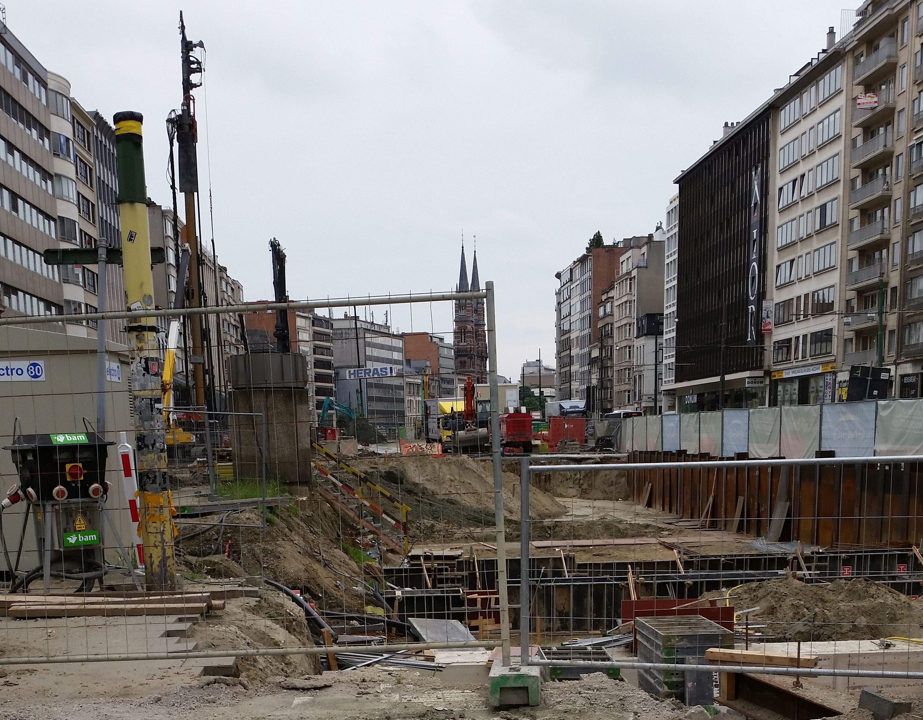 Redevelopment works of Opera Square in Antwerp, Belgium, within the frame of Noorderlijn project. Picture taken on June 25, 2016.